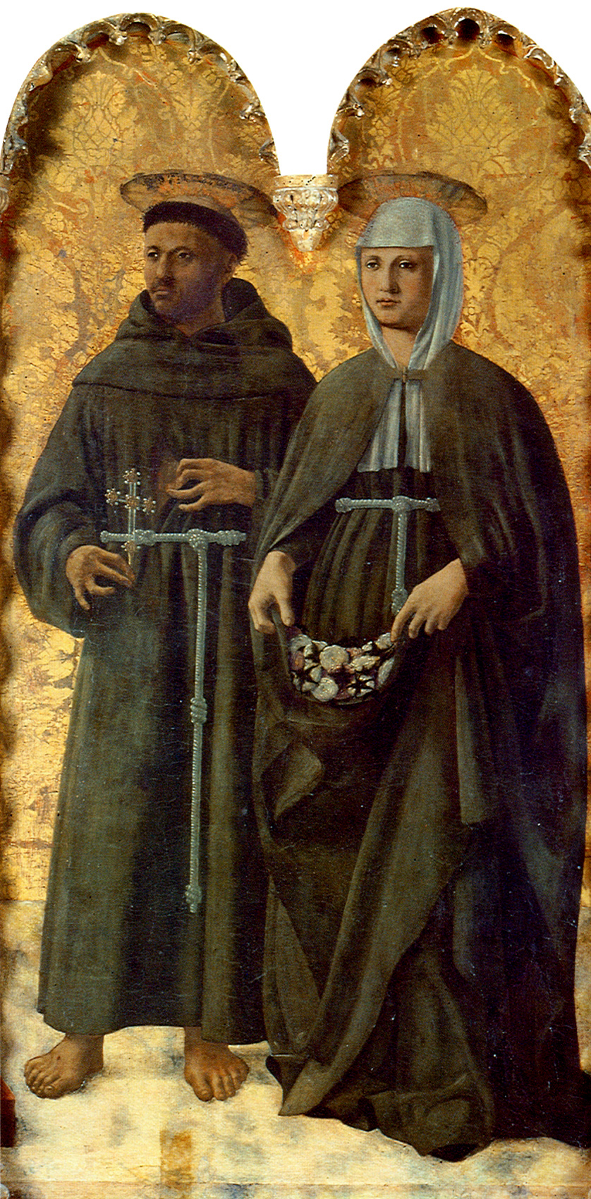 Polyptych of Perugia: Saint Francis and Saint Elisabeth Panel, 338 x 230 cm (whole) Perugia, galleria Nazionale dell’Umbria